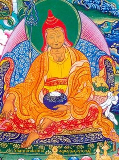 Shantarakshita (725-788) - Indian Buddhist scholar